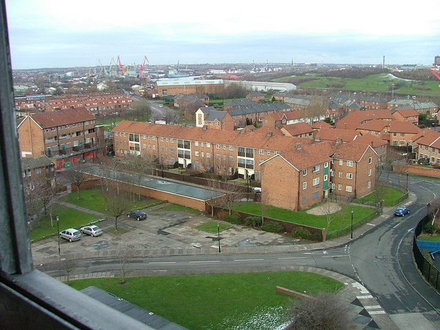 Looking Towards Wallsend.